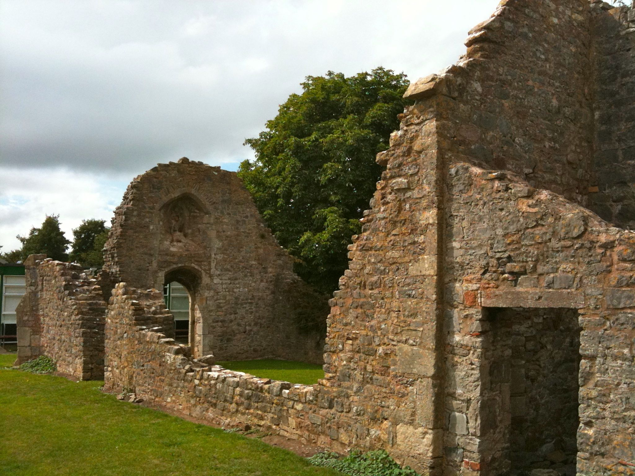 Chapel in the grounds of The Kings of Wessex School in Cheddar, Somerset